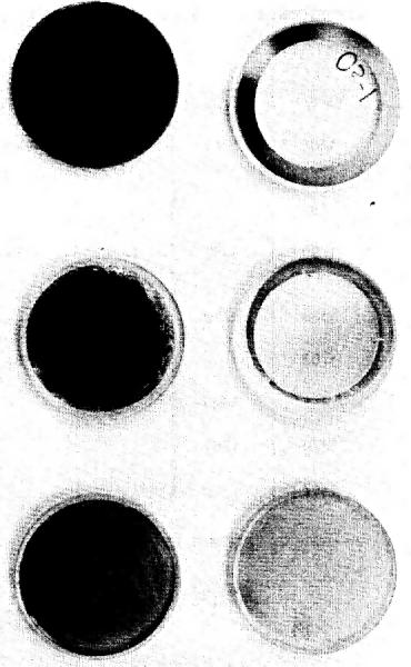 NASA mirror oxidation